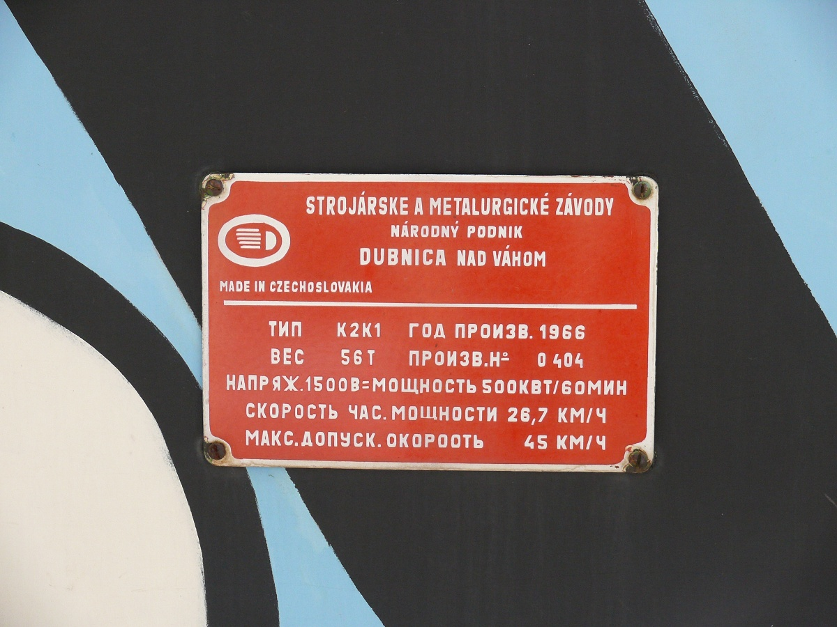 Locomotive Skoda 17E ČS 11-08 in Georgia 2014